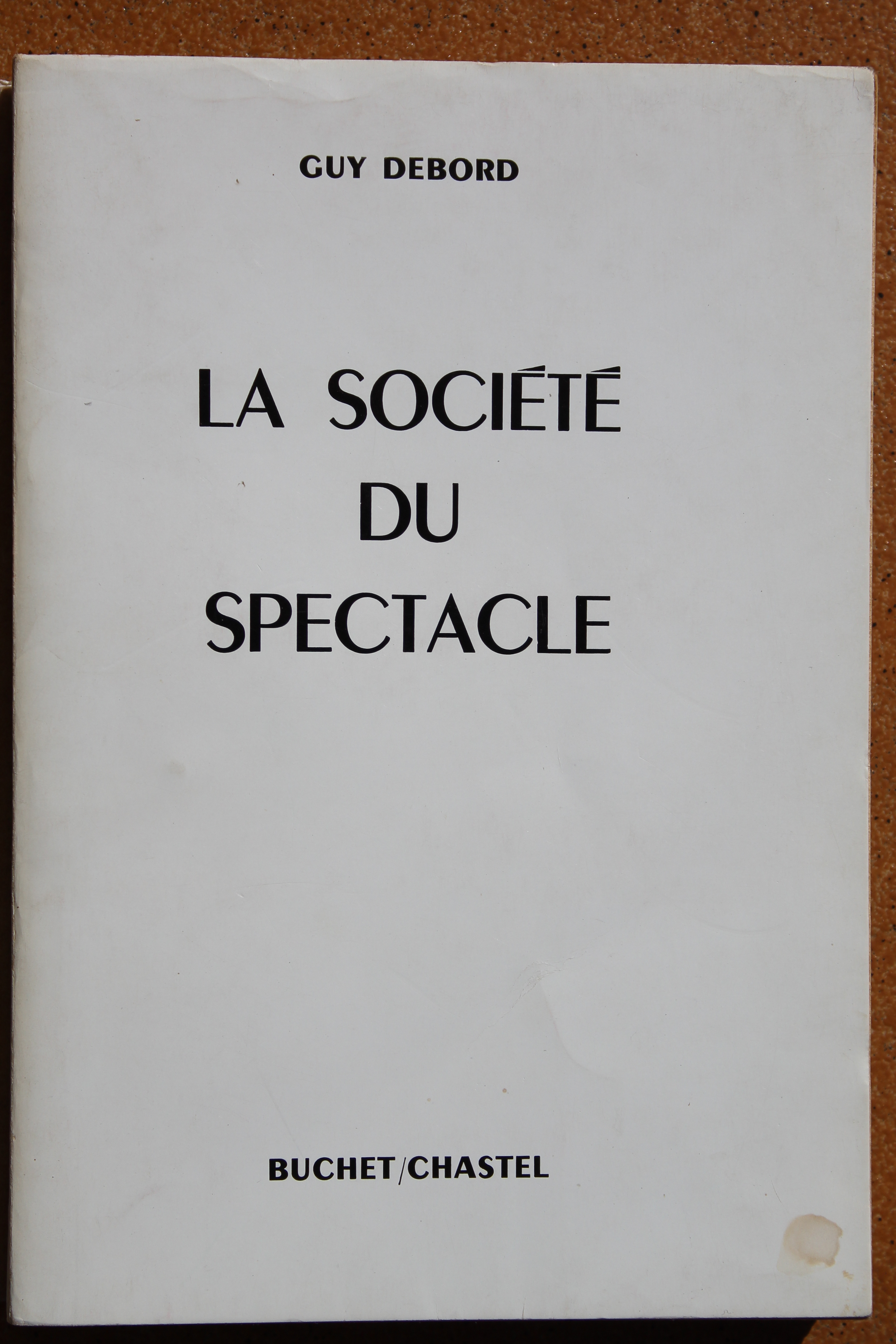 La Société du spectacle (book by Guy Debord, 1967)